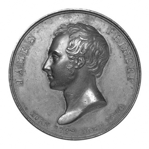 Bronze medal of James Prinsep, created by William Wyon, circa 1840. Collection of National Portrait Gallery, London.